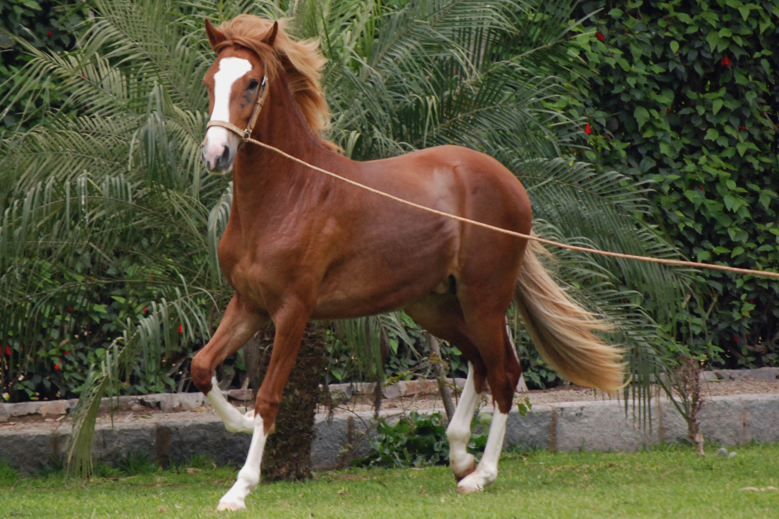 Peruvian Paso in training at the Hacienda Mamacona